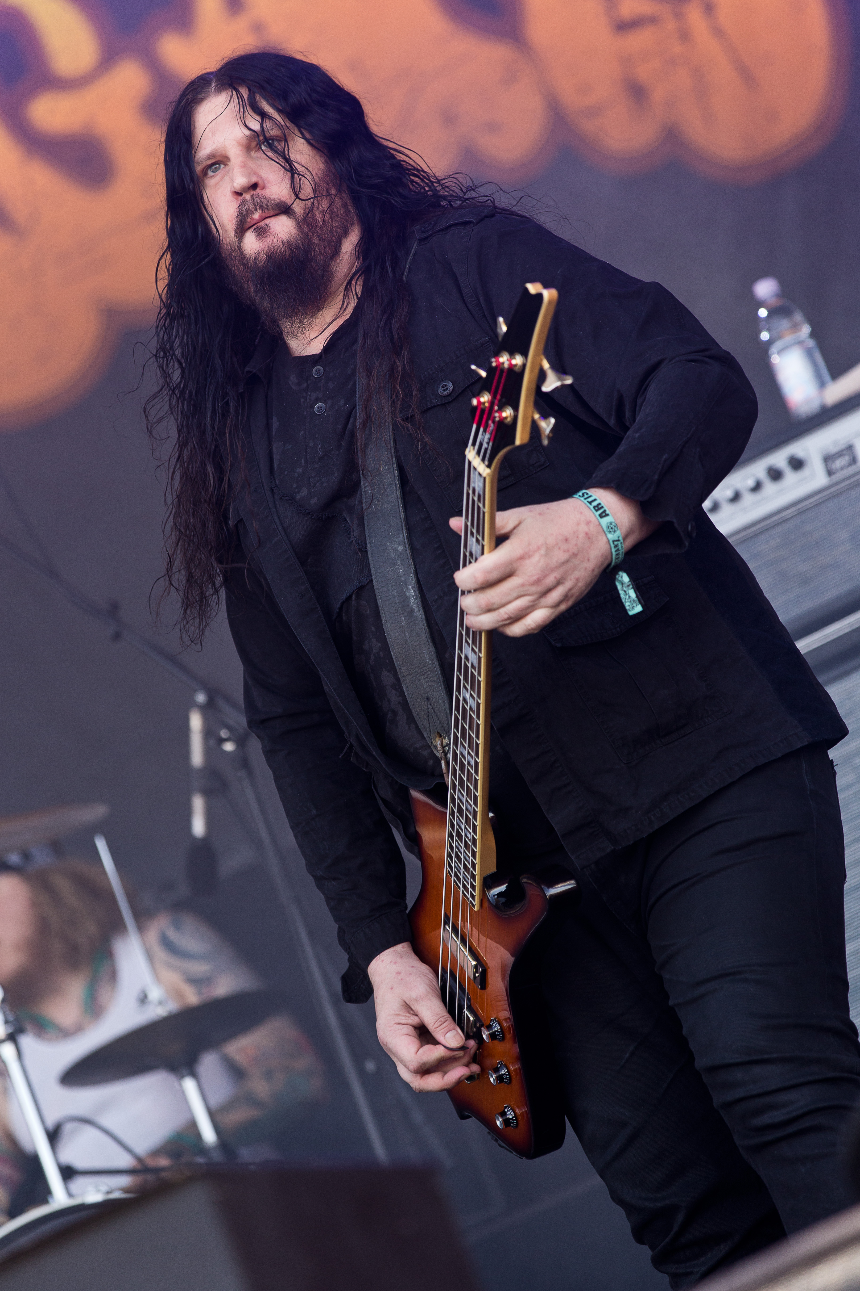 The Swedish stoner metal band Spiritual Beggars at the Rockharz Open Air 2016 in Ballenstedt/Germany.